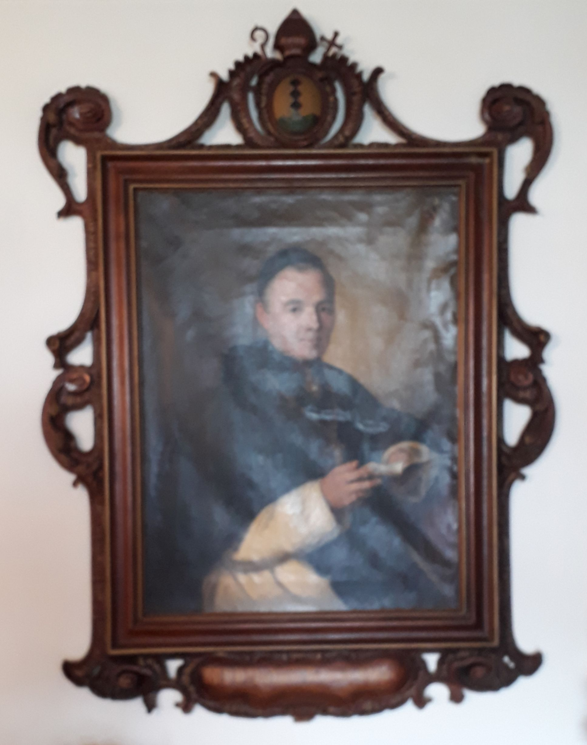 Mehrerau Abbey in Bregenz (Wettingen-Mehrerau Territorial Abbey), Vorarlberg, Austria. Painting of the Martin Reimann.